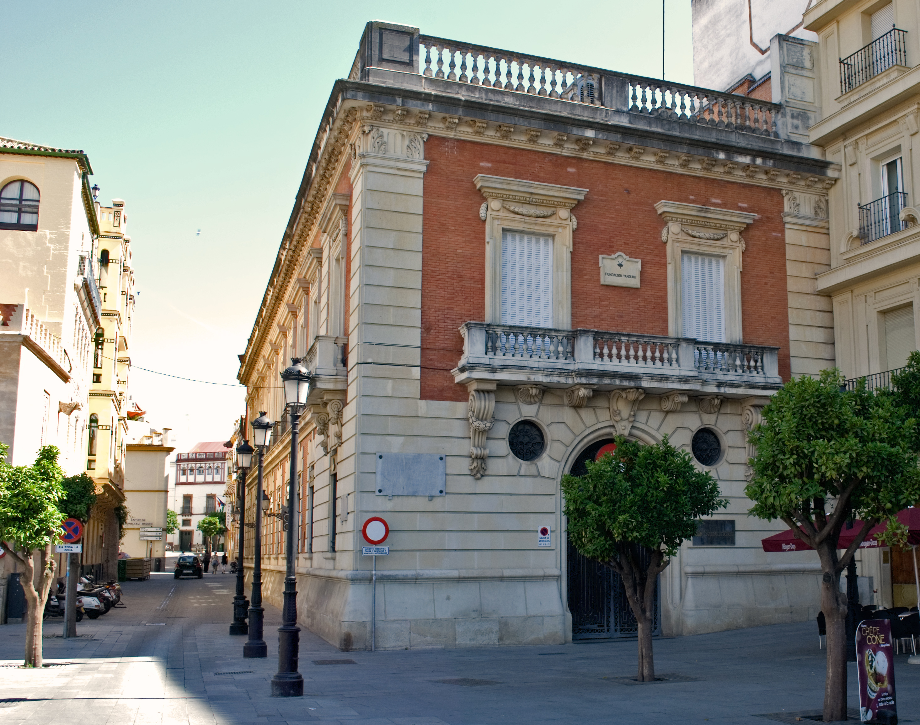 Palace of Yanduri, Seville.